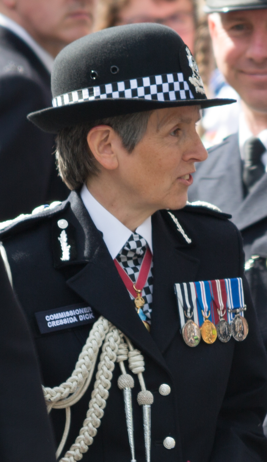 Cressida Dick in the funeral procession of Keith Palmer